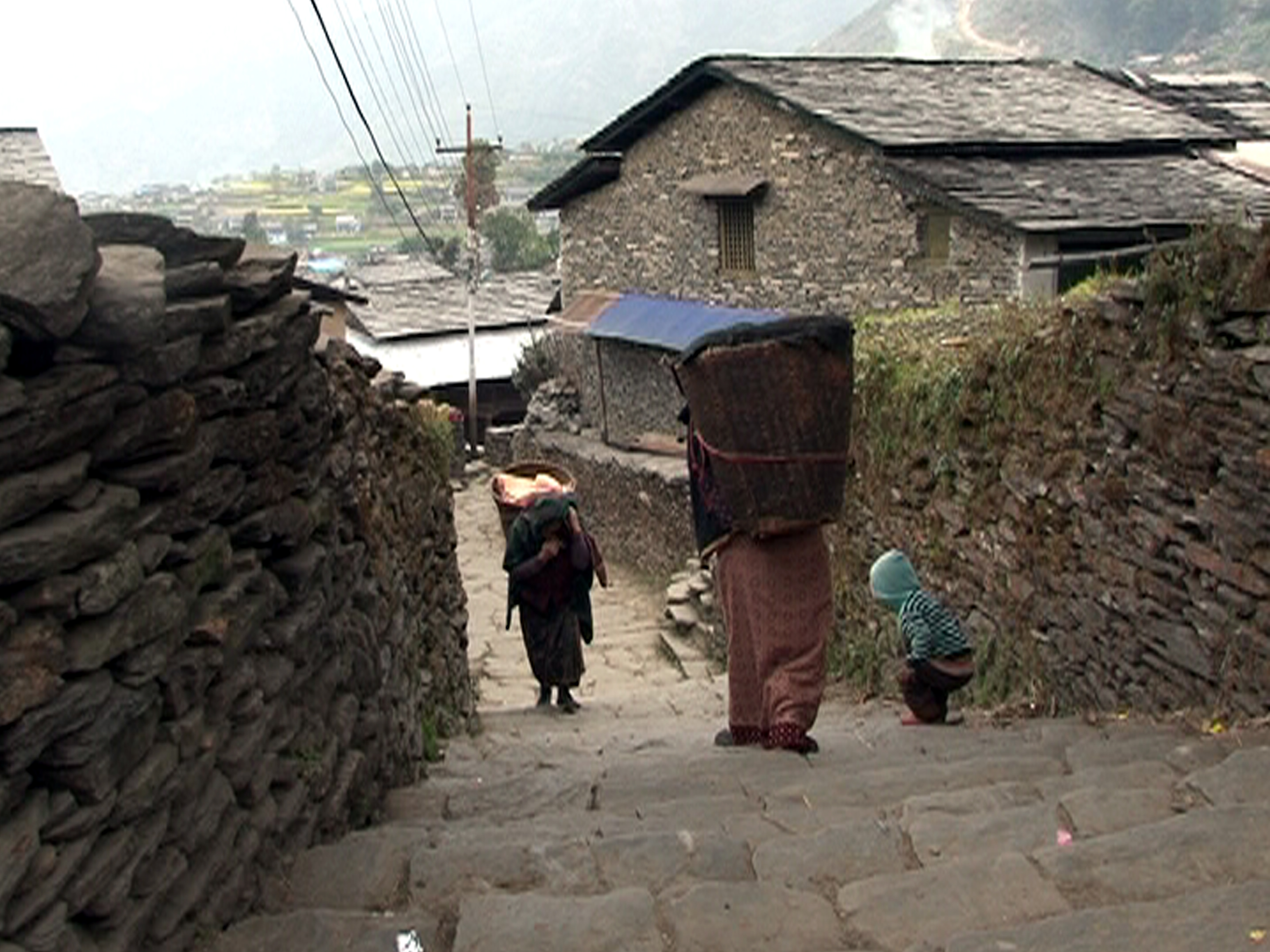 A village in Gorkha District.